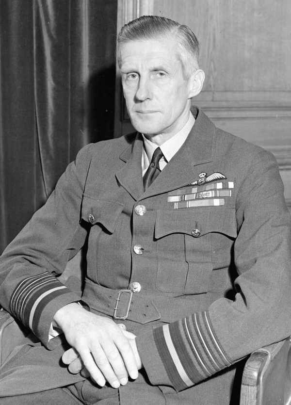 Close up of Air Chief Marshal Sir Edgar Ludlow-Hewitt, Air Officer Commanding-in-Chief Bomber Command, sitting in his office at Headquarters Bomber Command, High Wycombe.